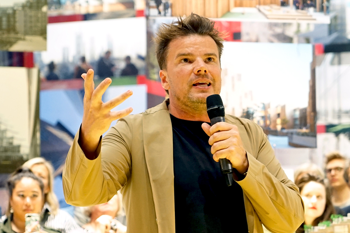 Bjarke Ingels - Danish architect and founder of Bjarke Ingels Group (BIG), a Copenhagen and New York based Architectural Practice - at Danish Architecture Centre, Copenhagen, Denmark - June 2019